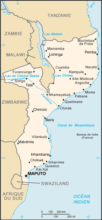 Map in French of Mozambique